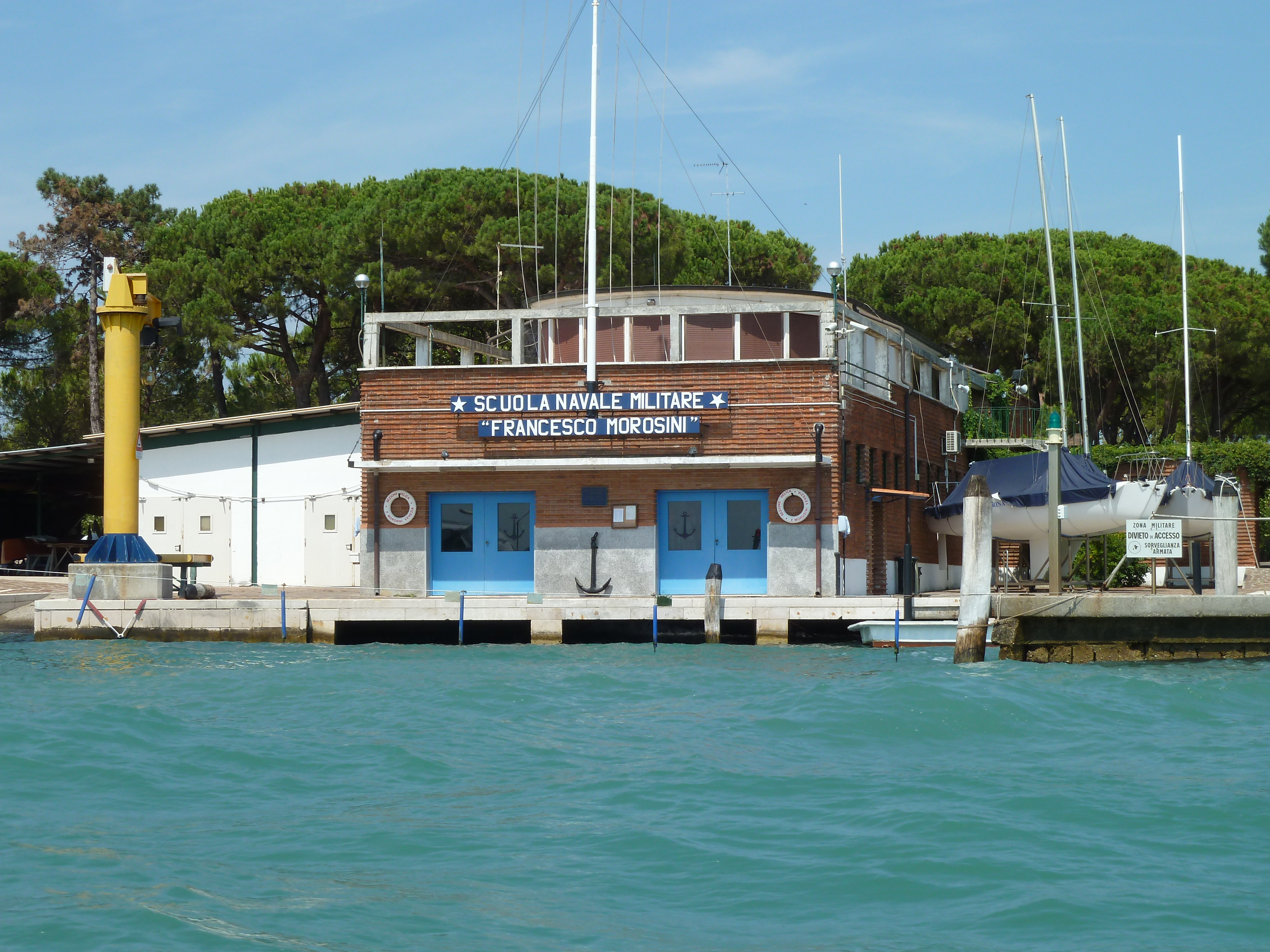 "Francesco Morosini" Naval School — Venice Lagoon.